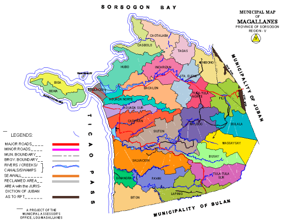 Map of the Municipality of Magallanes